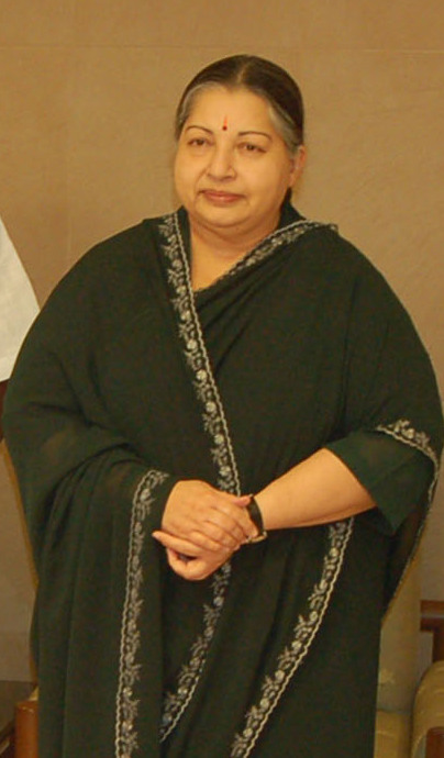 Cpim leaders meet Jayalaitha